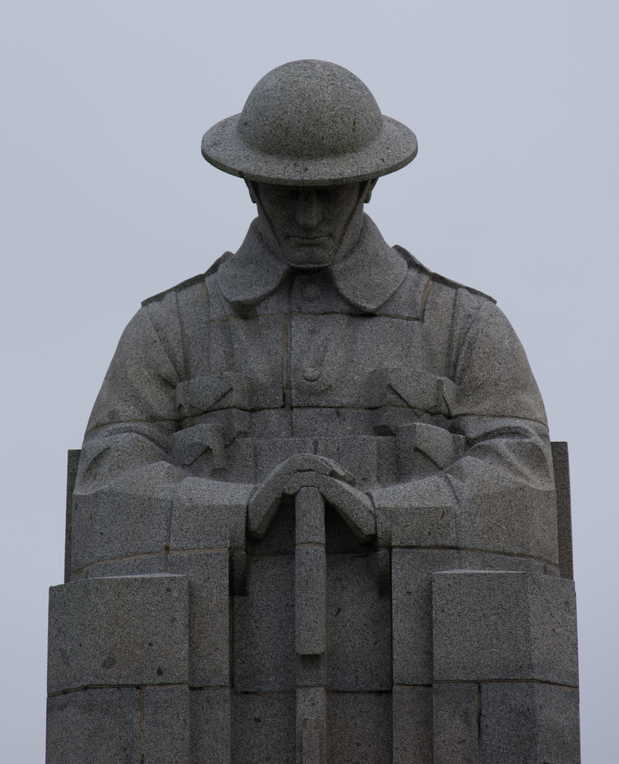 Close up photo of the St. Julien Memorial in Saint-Julien, Langemark, Belgium. The picture depicts the top of the memorial known as the Brooding Soldier